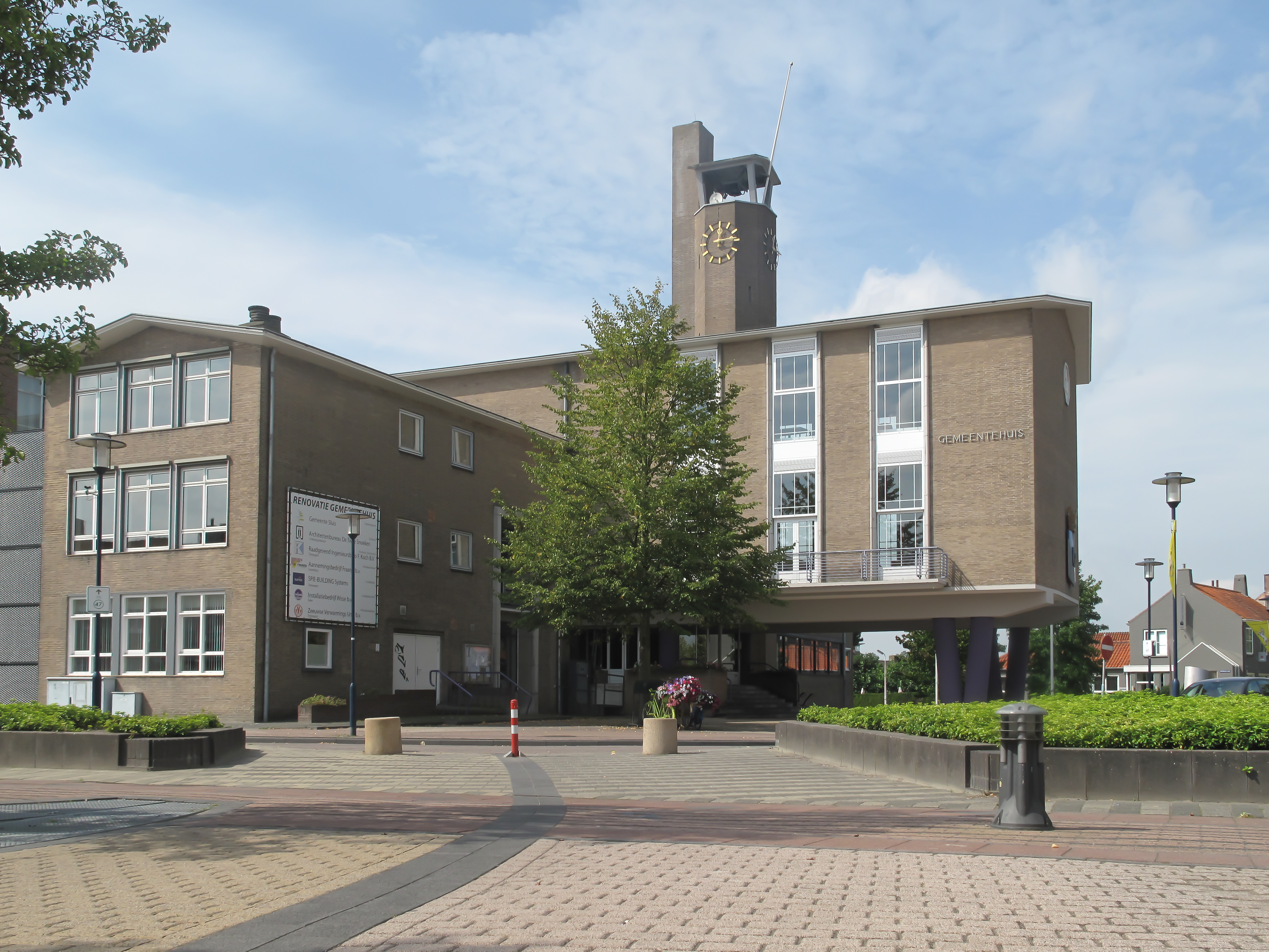 Oostburg, town hall